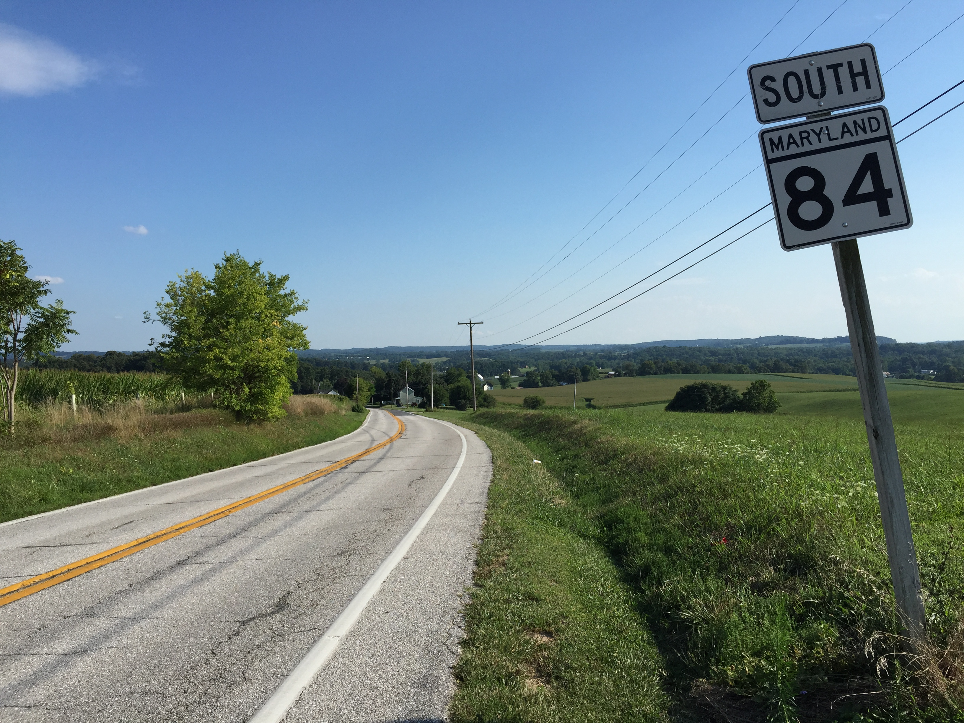 View south along Maryland State Route 84 (Clear Ridge Road) just south of Pipe Creek Road in Clear Ridge, Carroll County, Maryland